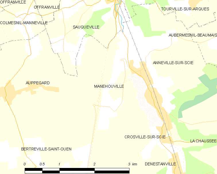 Map of French municipality Manéhouville